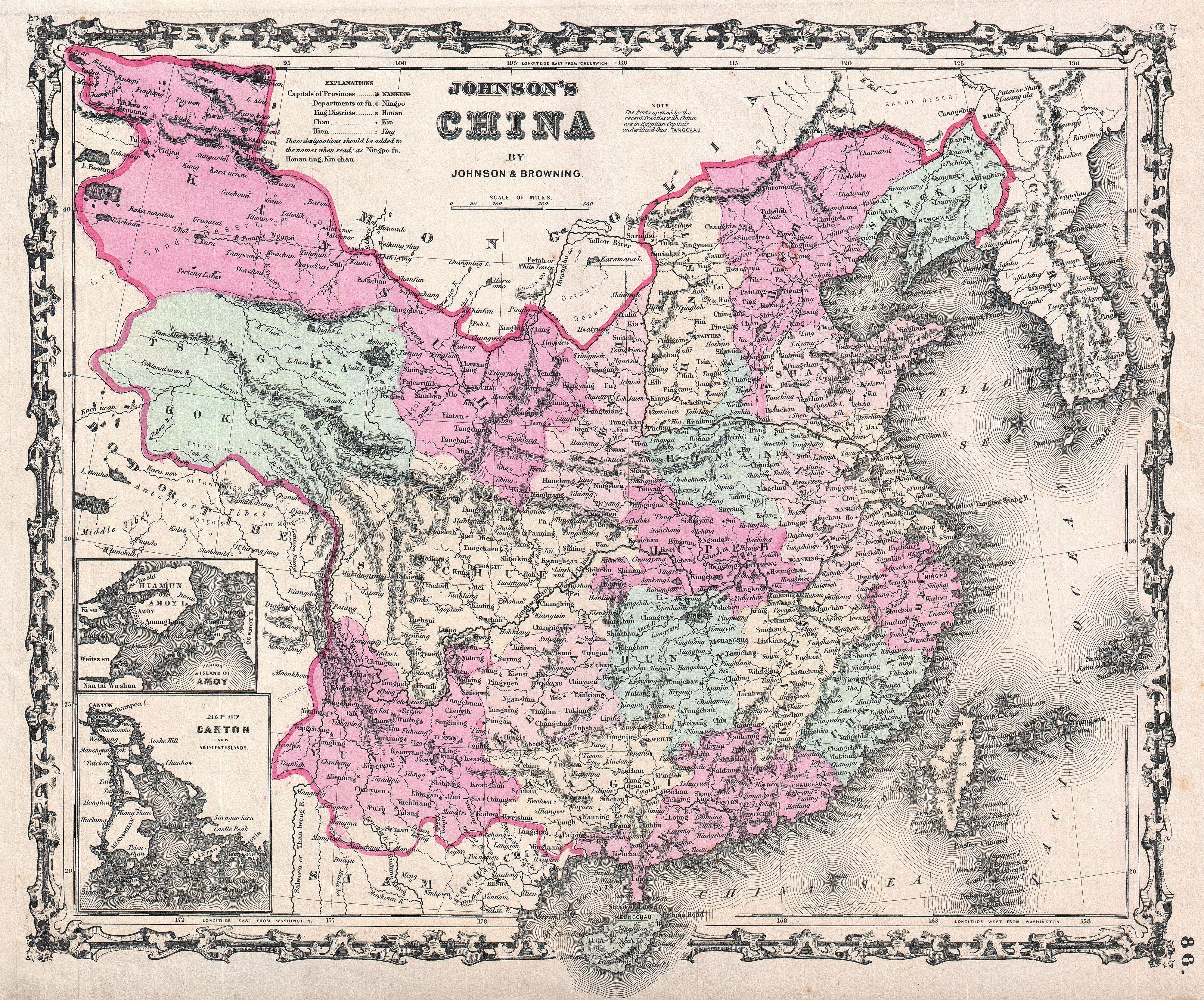 This is Johnson and Browning’s 1861 map of China, first edition. Covers the region with particular attention to cities and waterways. China at the time this map was made was mostly closed country, however, a few ports were opened to western trade, these few are noted in capital letters and include Tanchau, Kaifung, Waingan, Shanghai, Canton and Nanking (Nanjing) among others. Insets detail the “Island of Amoy” and Canton (Hong Kong). Features the ribbon style border common to Johnson’s atlas work from 1860 to 1862. Steel plate engraving prepared by A. J. Johnson for publication as plate no. 86 in the 1861 edition of his New Illustrated Atlas… This is the last edition of the Johnson’s Atlas to exclusively bear the Johnson and Browning imprint.